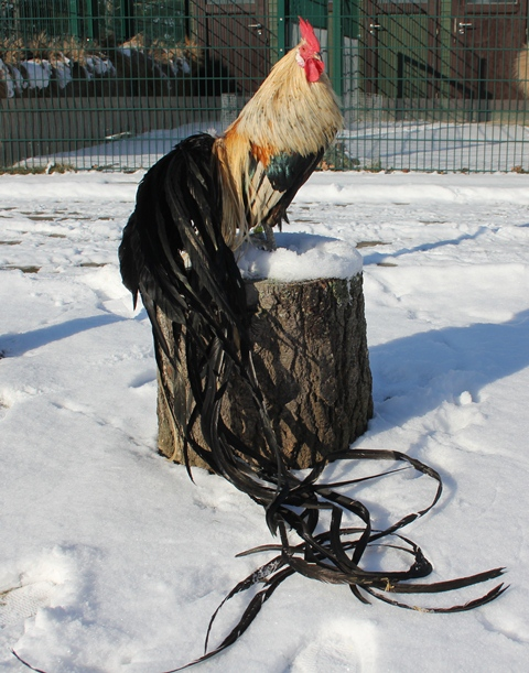 Black Breasted Gold Onagadoricock, breeder